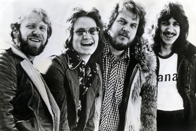 Trade ad from King Biscuit Flower Hour featuring Bachman–Turner Overdrive. To better adapt it to his respective Wikipedia article, the ad was cropped and cleaned in a graphics editing program. The original can be viewed at the source below.